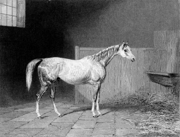 British racehorse, Grey Momus. Engraving circa 1850. Unknown artist. Artist dead for 100+ years.